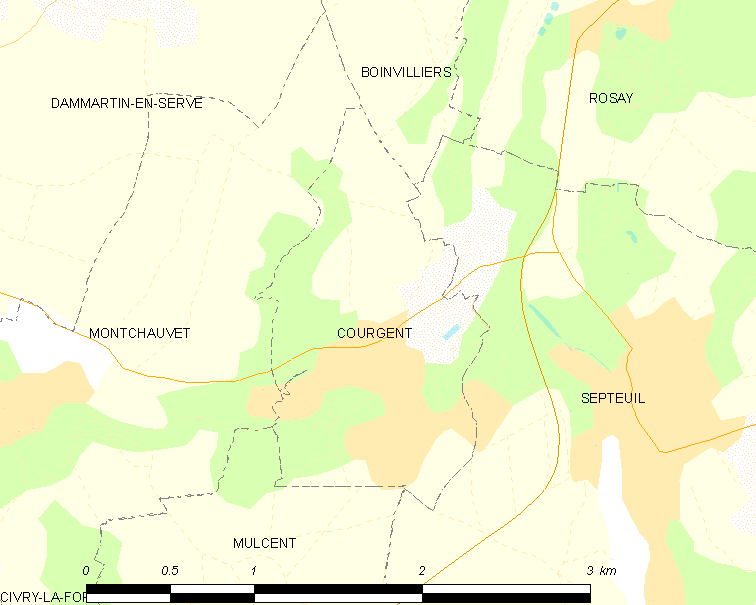 Map of French municipality Courgent